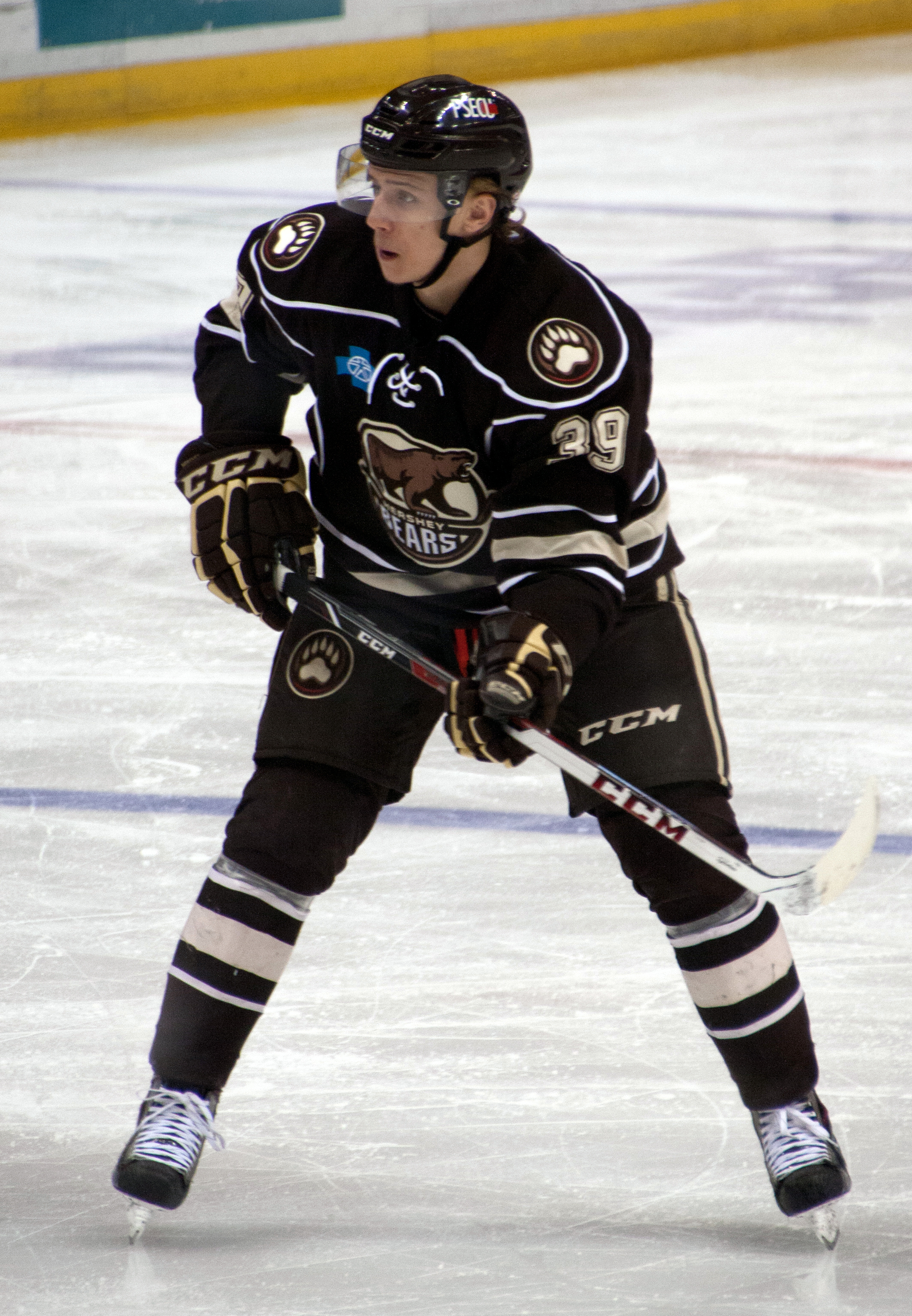 Jakub Vrana